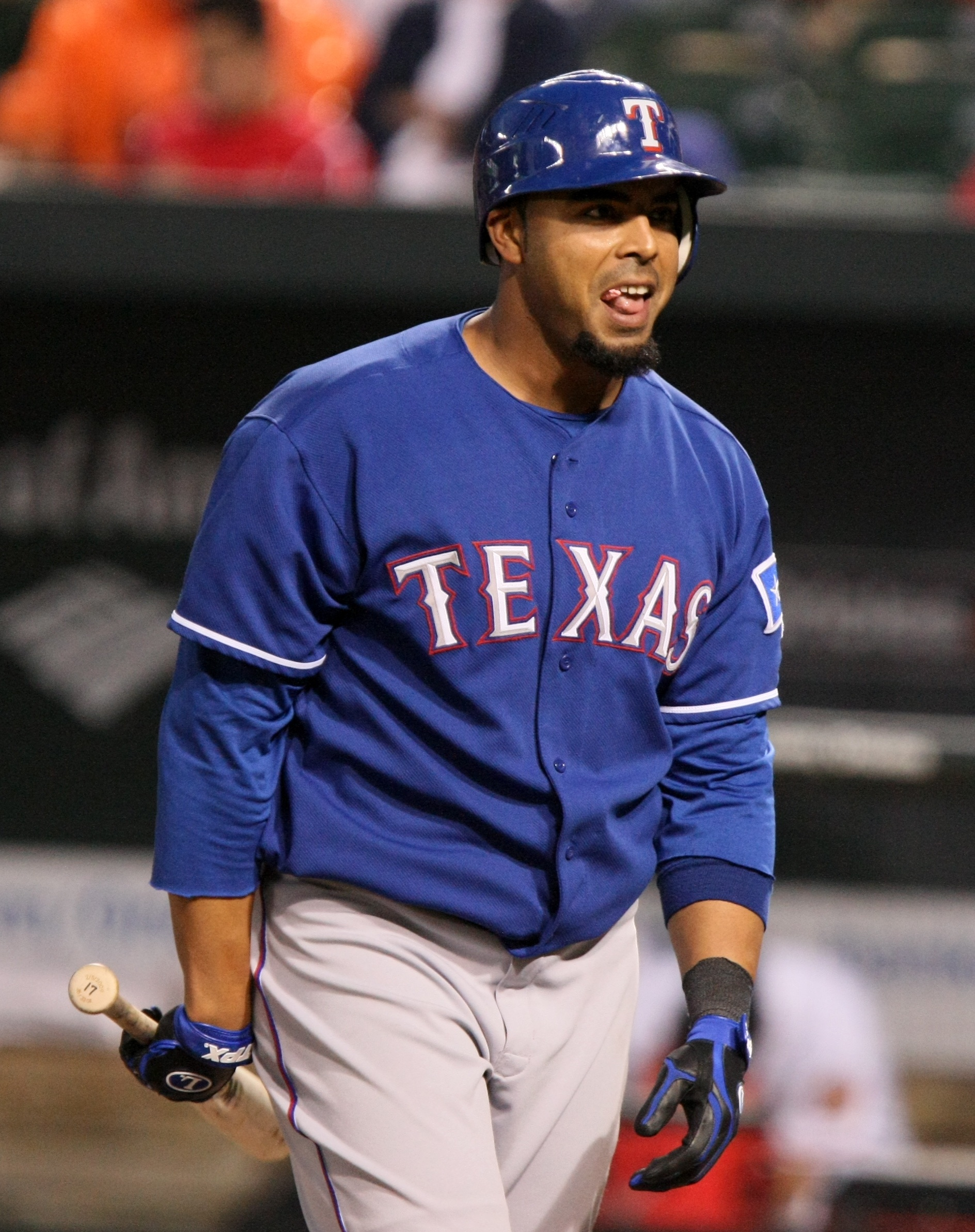 A picture of Nelson Cruz.